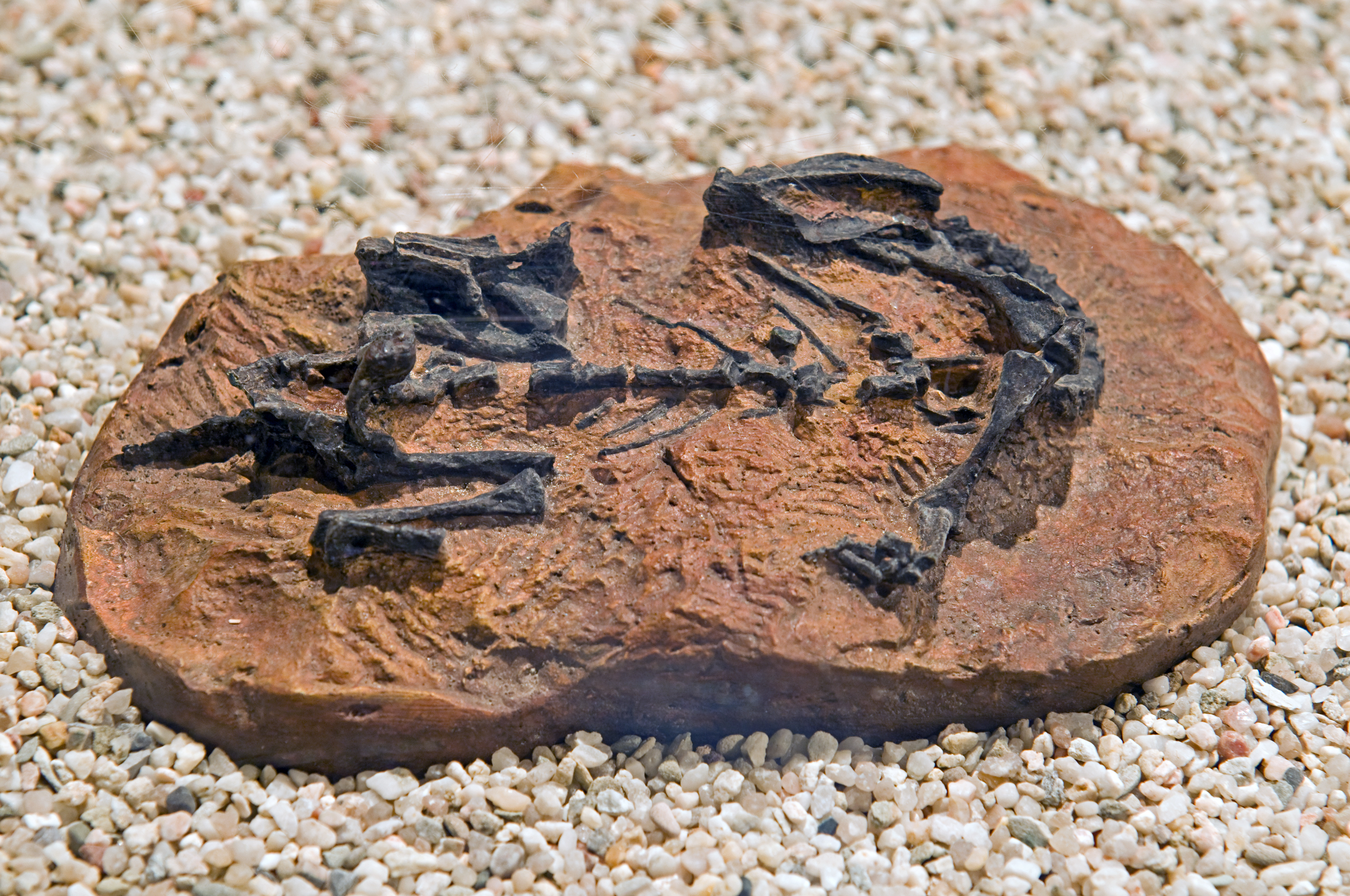 Fossil of a juvenile skeleton